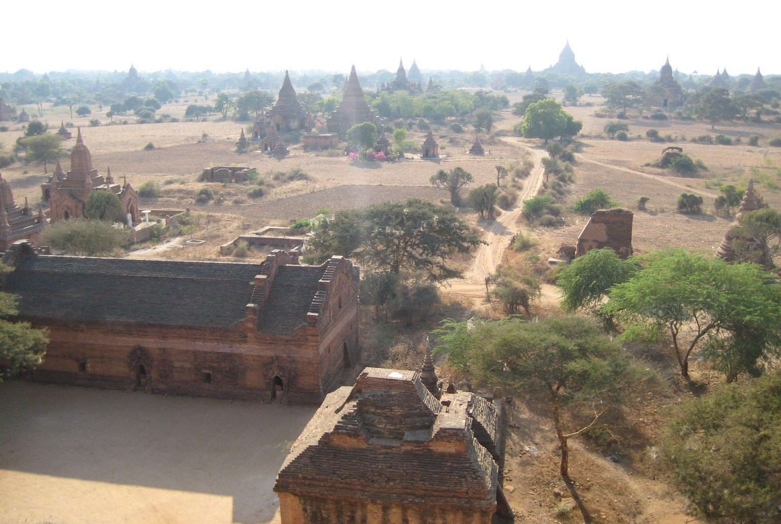 Bagan